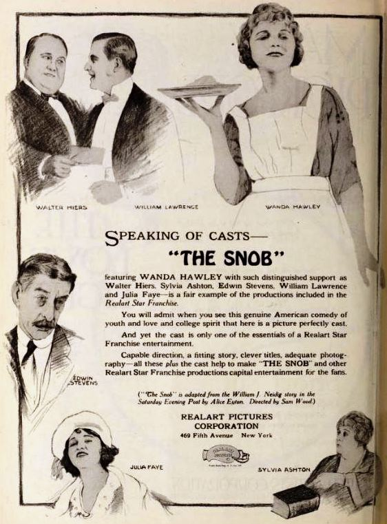 Advertisement for the American film The Snob (1921) with Walter Hiers, W. E. Lawrence (as William Lawrence), Wanda Hawley, Edwin Stevens, Julia Faye, and Sylvia Ashton, on page 19 of the January 29, 1921 Exhibitors Herald.